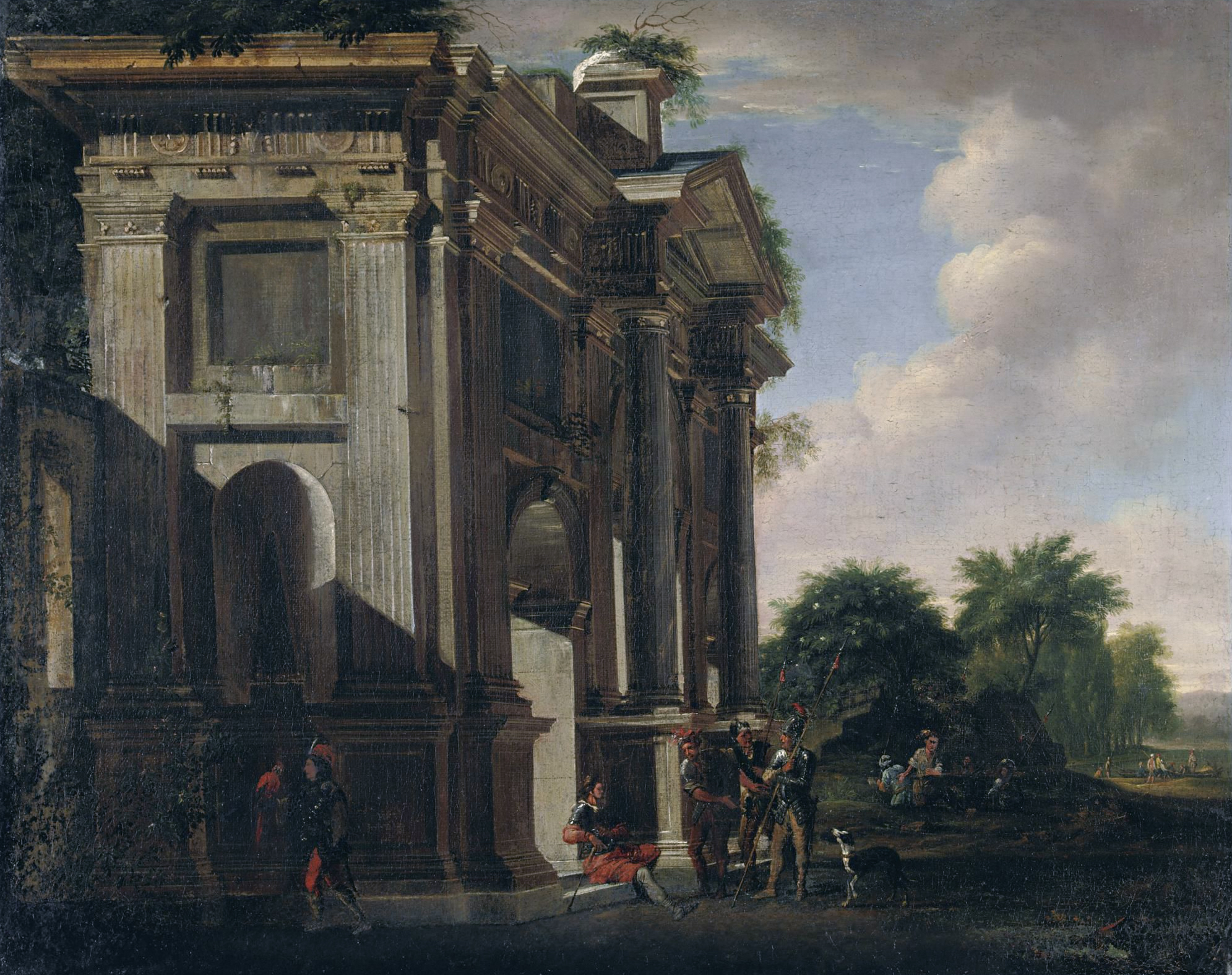 Caprice of a triumphal arch and soldiers